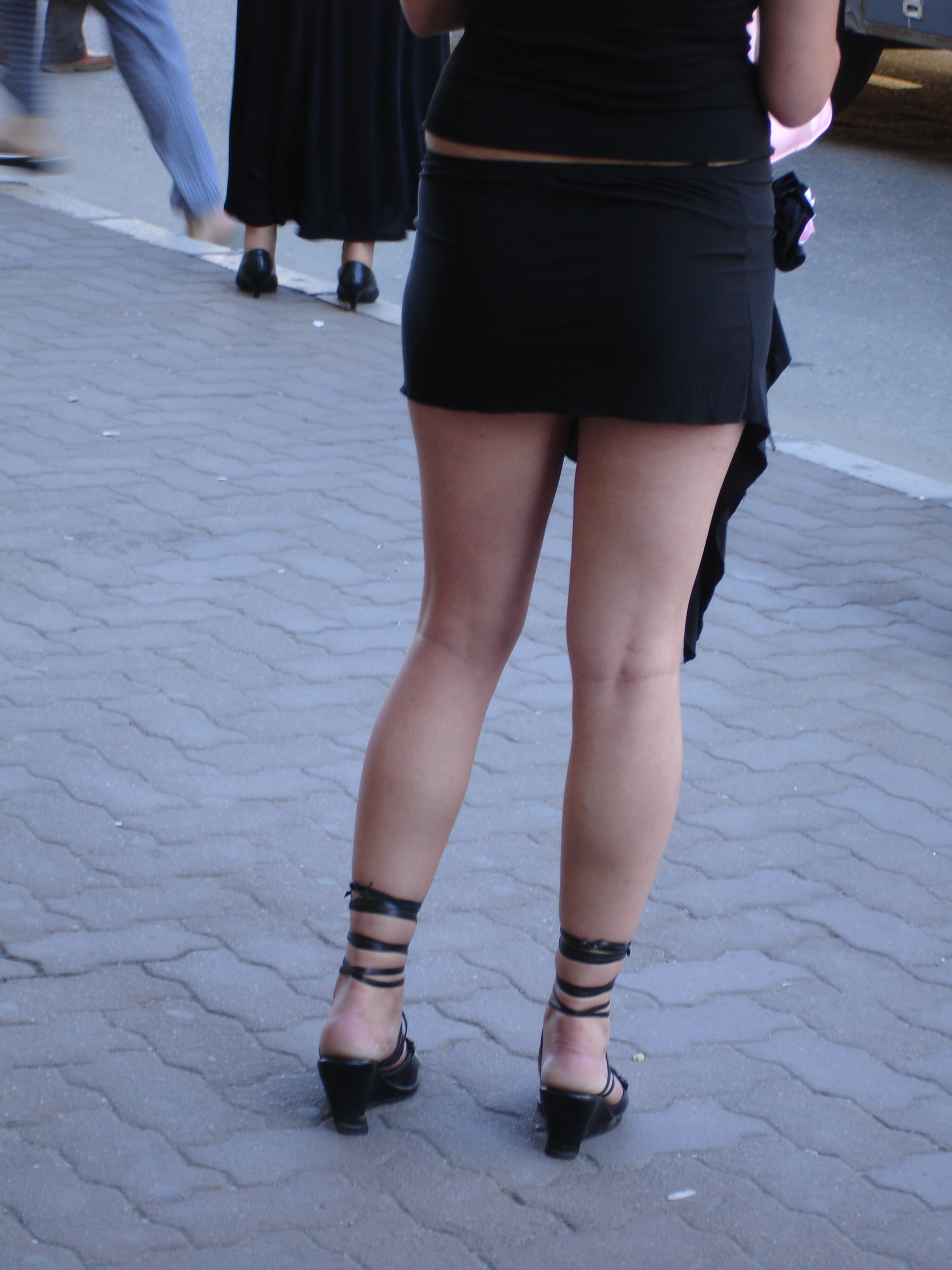 At the bus station, a young pair holding each other, this young woman in a mini skirt, but everyone was preoccupied with his or her problem and I was the only one observing. Tomorrow I'll put that photo too, off all the people waiting.